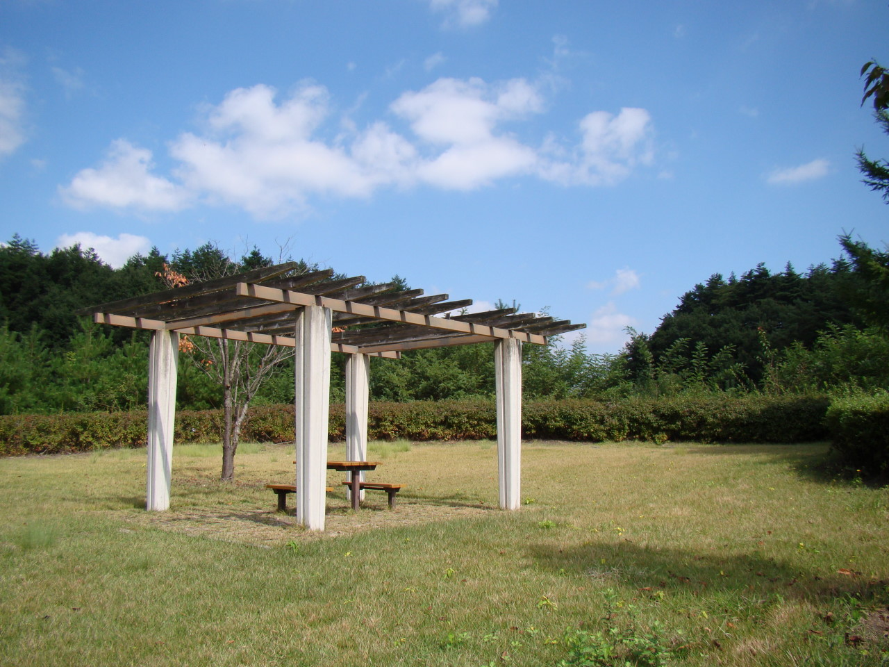 Nagano expressway Chikuhoku parking area Koshoku side azumaya Nagano Japan